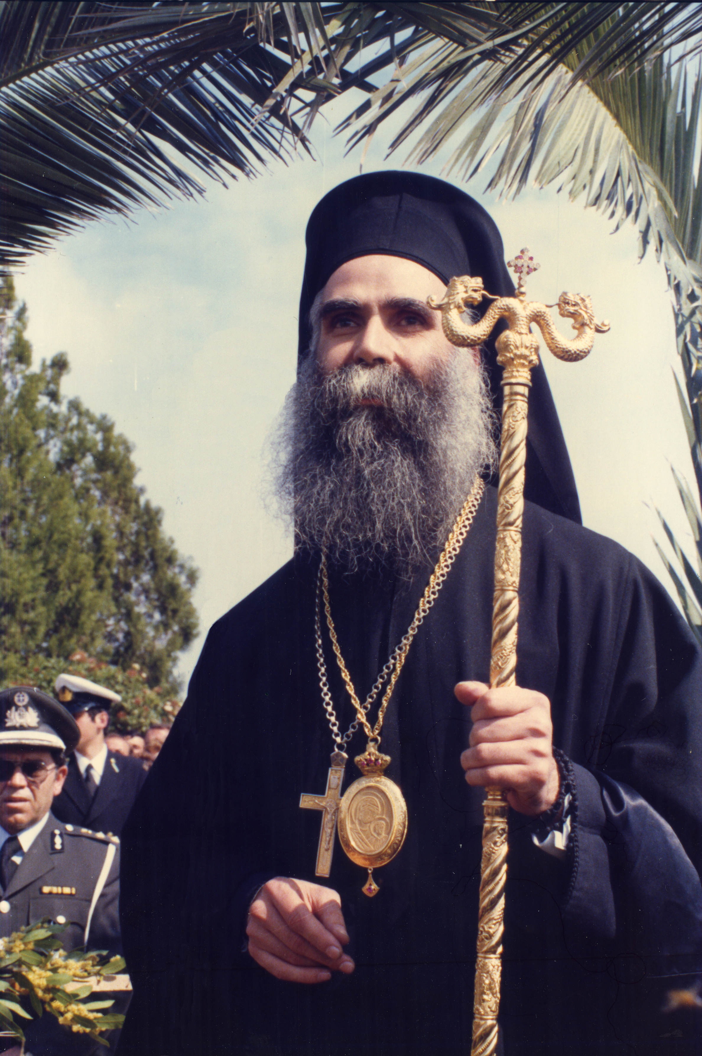 Bishop Meletios Kalamaras in 1980 at Preveza.